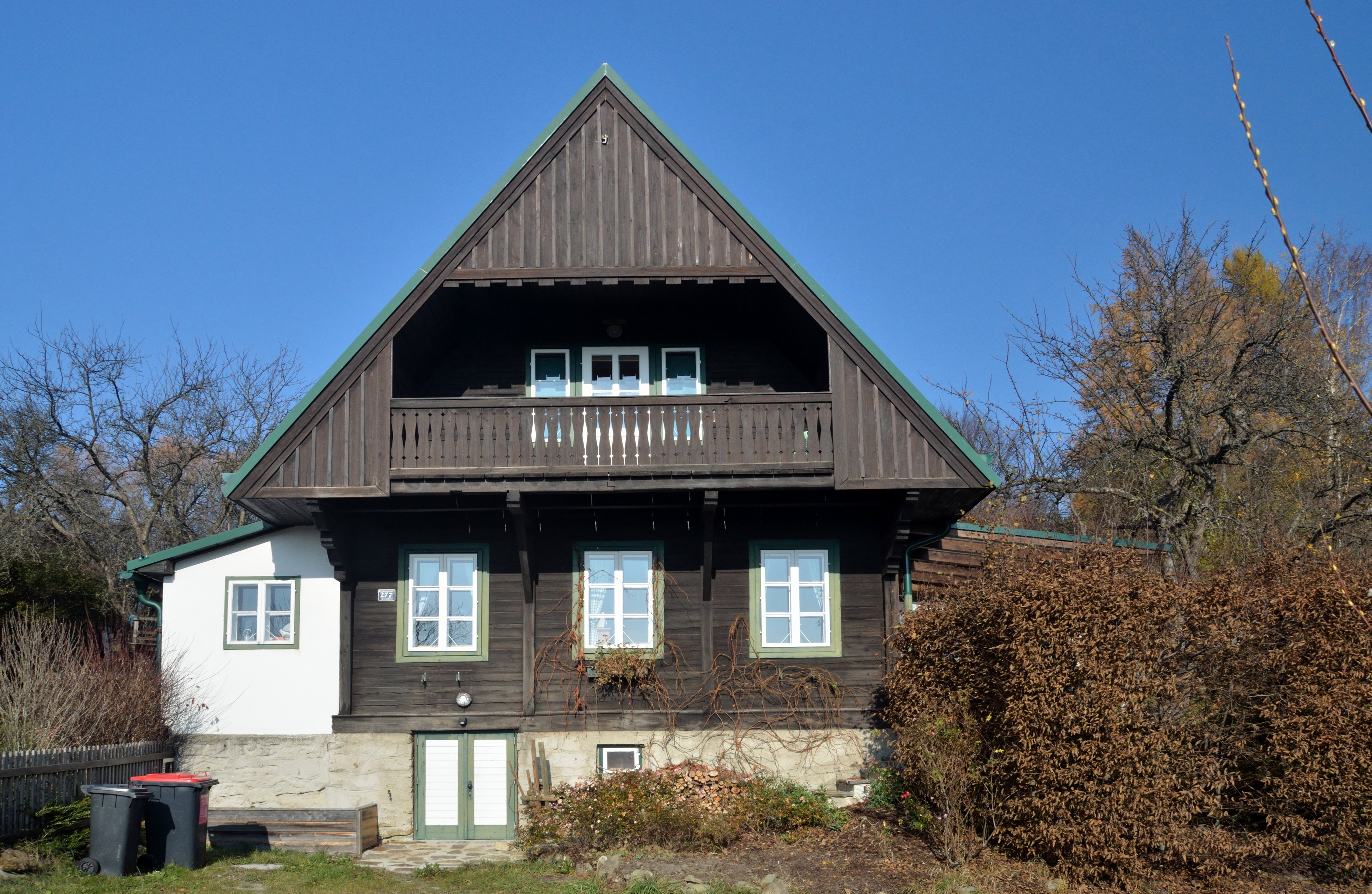 The residential buildings in Ranzenbach, municipality of Klausen-Leopoldsdorf, Lower Austria, have been built in 1928/29 as part of a colonie and are all now protected as cultural heritage monuments.